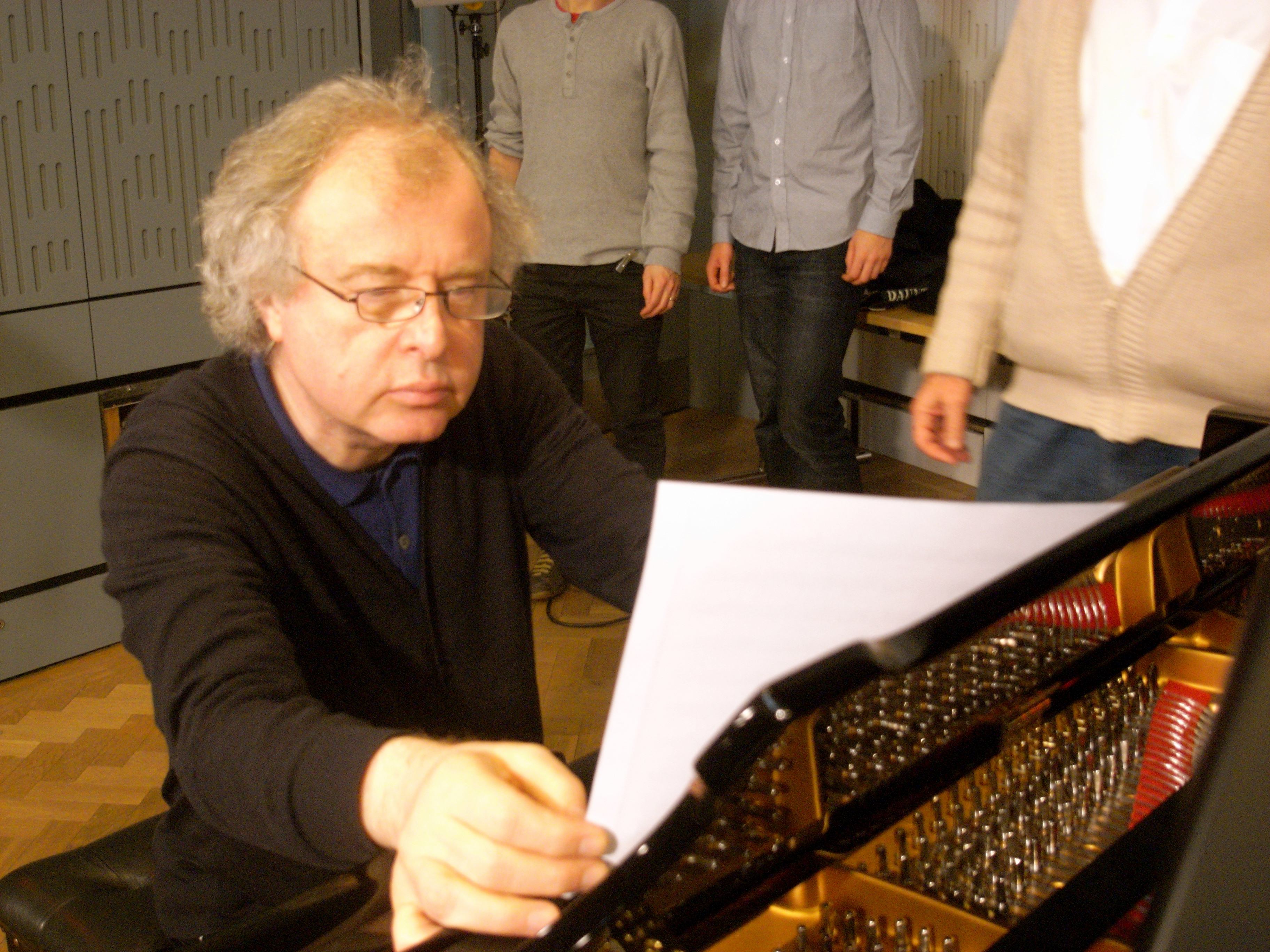 András Schiff, January 6, 2012